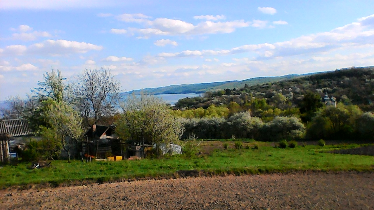 View of village Grigirivka, Ukraine